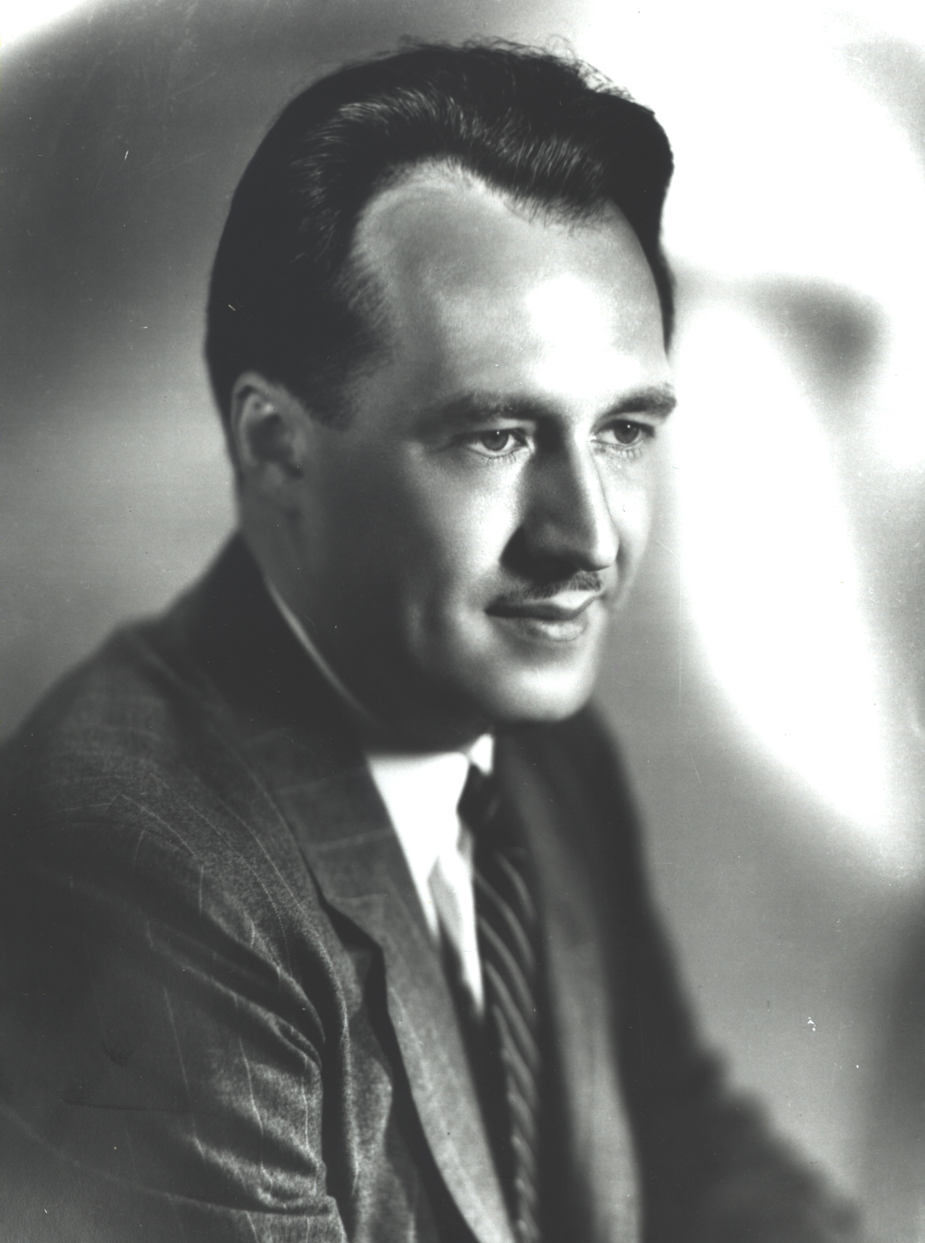 Wilfred Conwell Bain (1908–1997), Dean of the University of North Texas College of Music, 1938 to 1947; and Dean of the Indiana University School of Music, 1947 to 1973. Photo circa 1940s